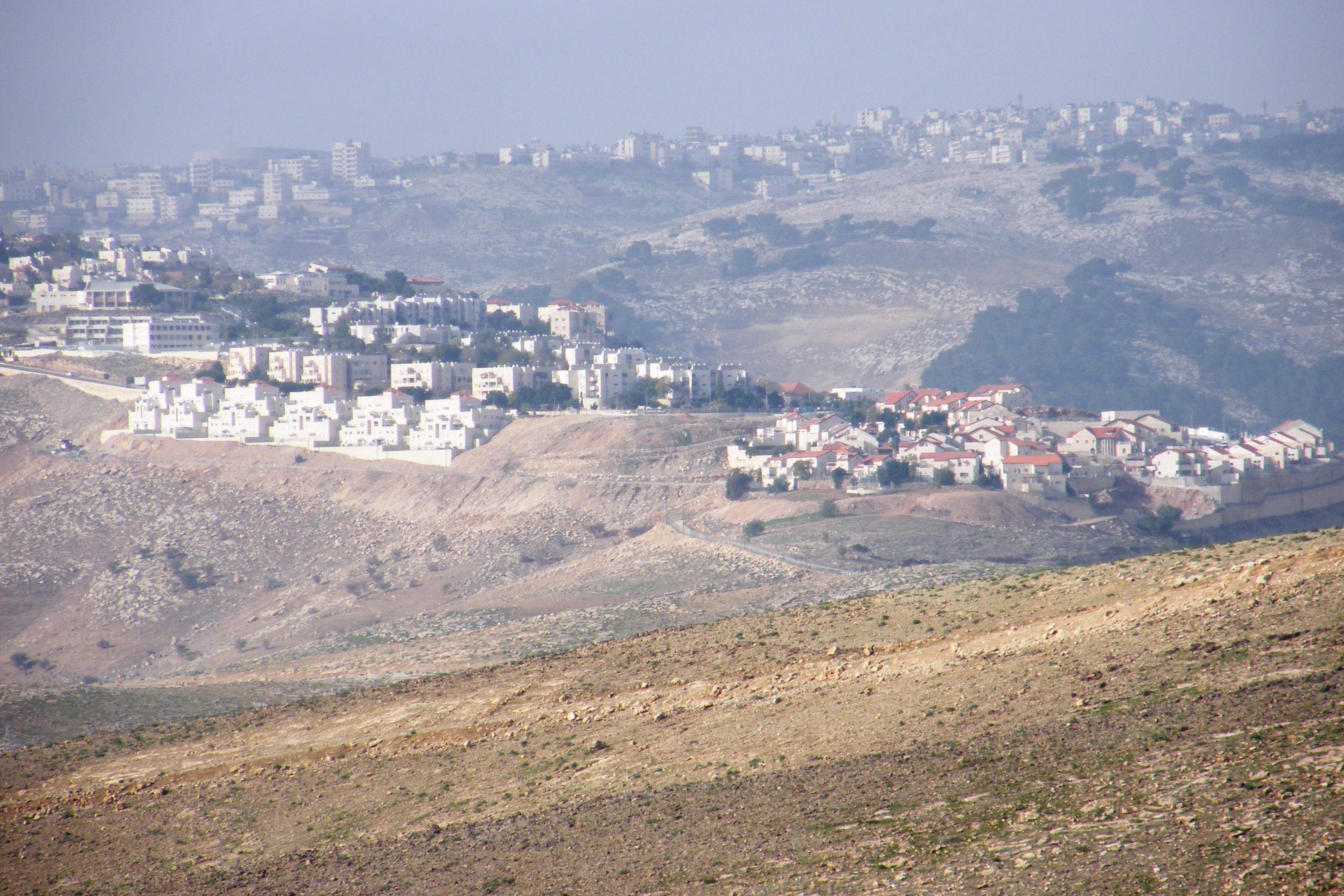 Mitzpe Nevo (Neighbourhood), Ma'ale Adumim, Israel from Kfar Adumim